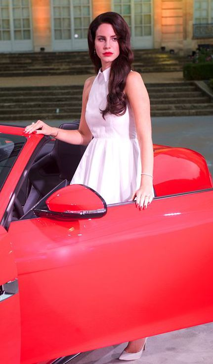 Del Rey promoting the new Jaguar F-TYPE